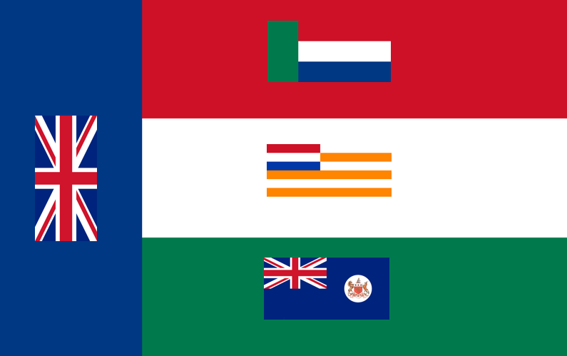 the original approved design of the New Republic flag taken from the South African Flag Book (2008) by A.P. Burgers This flag was made using already existing Wikipedia assets namely: File:Flag of Nieuwe Republiek.svg File:Flag of Transvaal.svg File:Flag of the Orange Free State.svg File:Flag of the Cape Colony (1876–1910).png File:Flag of the United Kingdom.svg and should be alright under fair use terminology